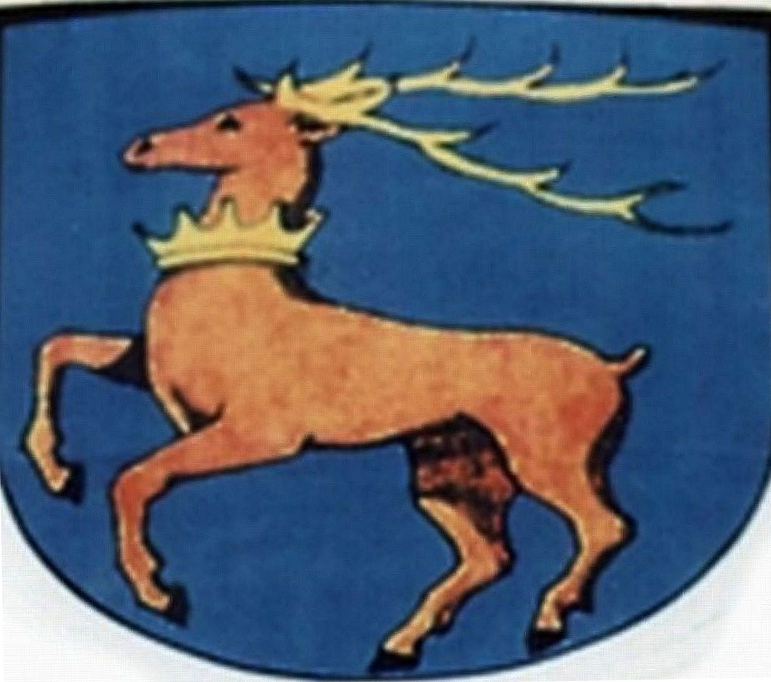 Coat of arms of the commune Miedzna in Poland